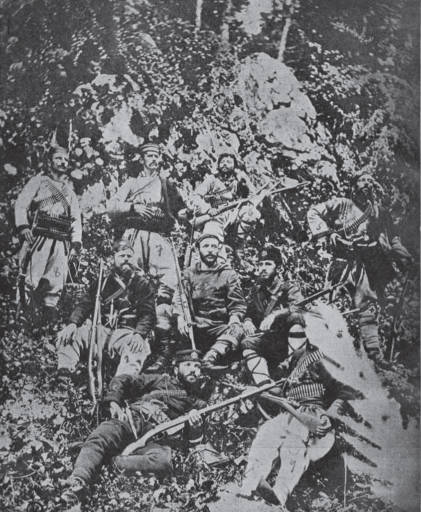 Cheta of IMARo with Nake Yanev and Debar-Kichevo voevodas Luka Dzherov, Hristo Nastev, Kliment Grupchev, Pavle karakunevski, Nikola Gyurev